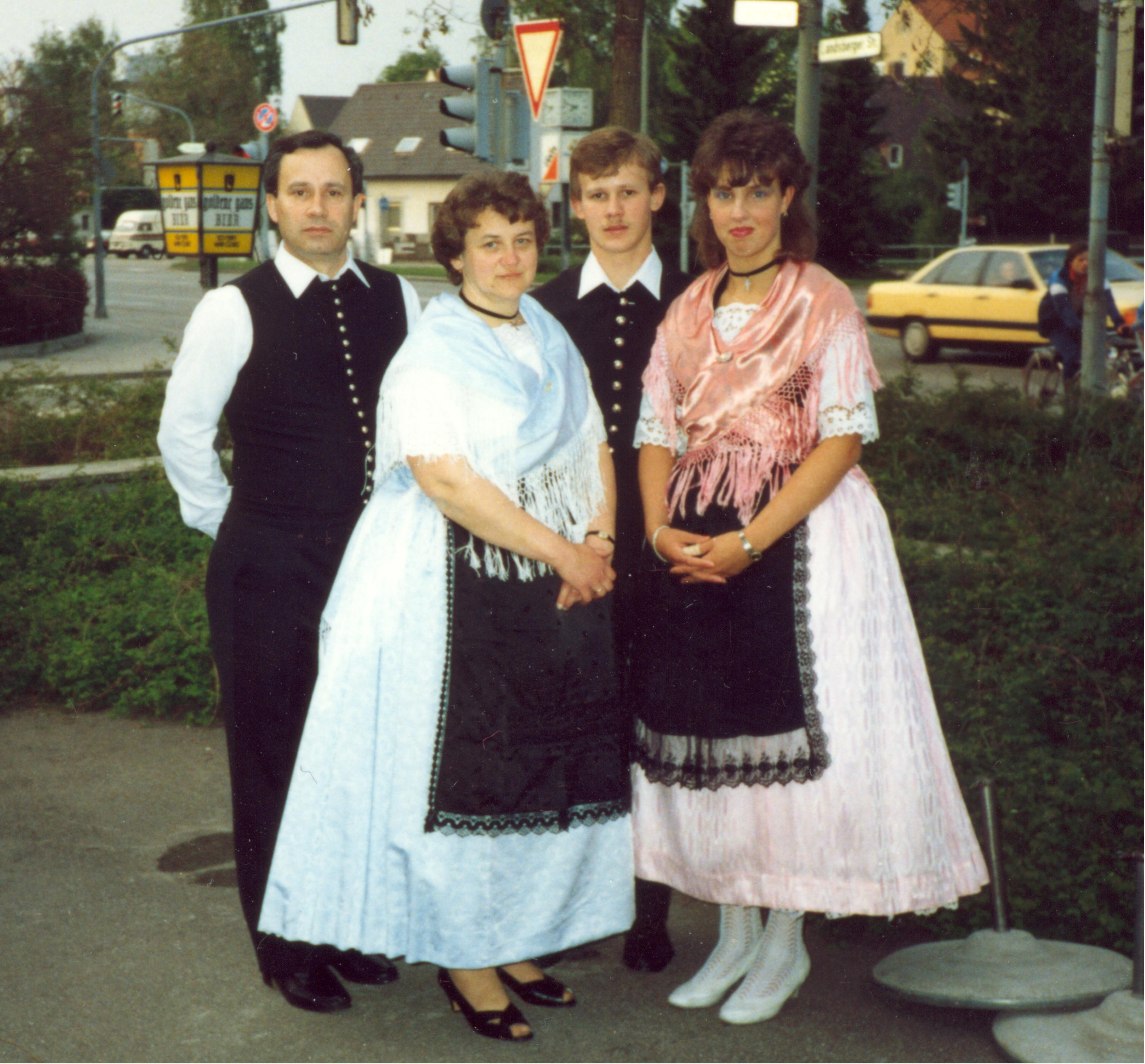 Traditional dressing from Neubeschenowa, 1988.